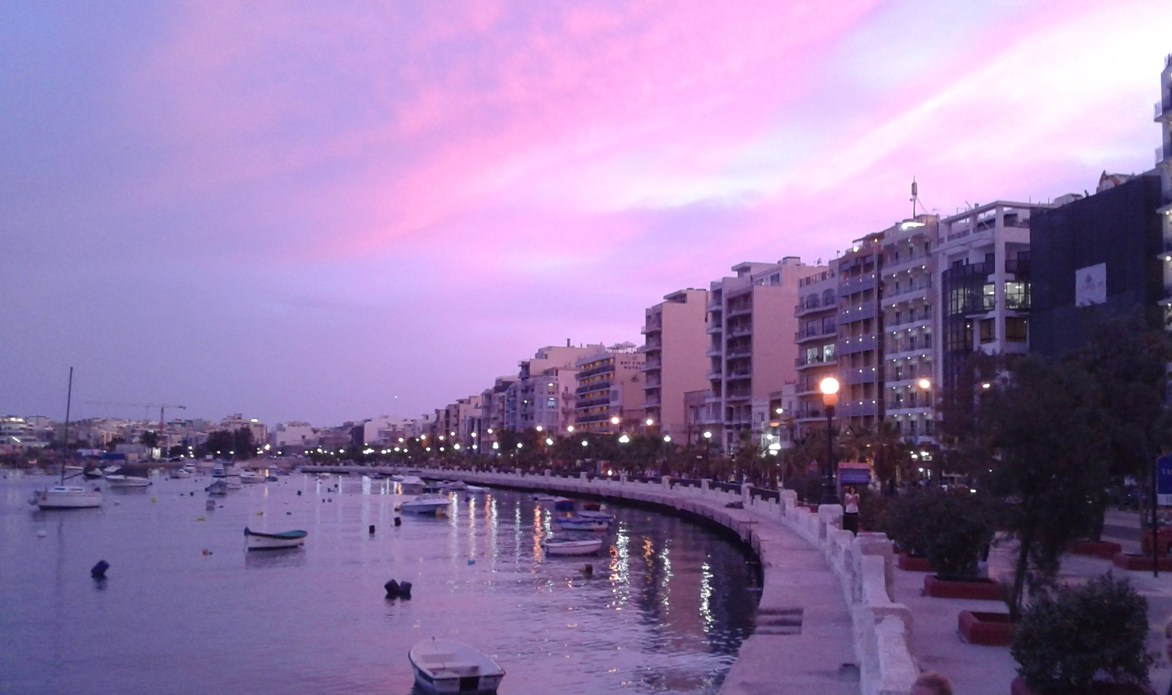 Sunset - Gzira Malta Promenade